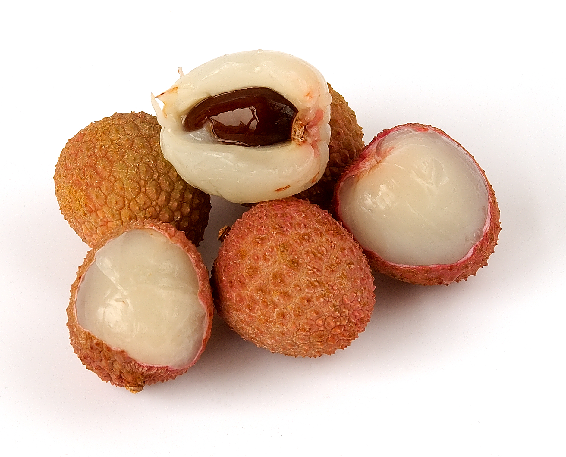 Lychee fruit (Litchi chinensis).